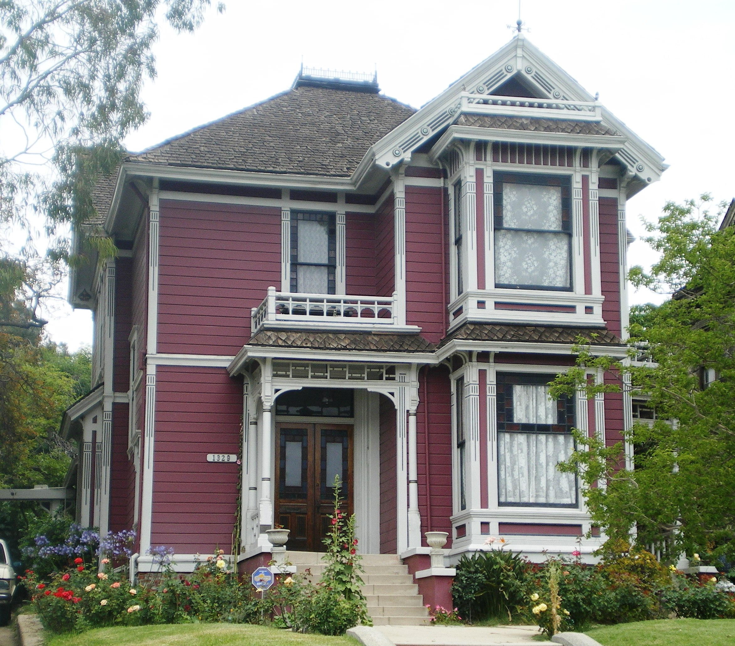 Eastlake Stick style Victorian house at 1329 Carroll Avenue — in the Angelino Heights neighborhood of the Echo Park district, Los Angeles. The "Charmed House" — used for filming in the "Charmed" TV series and for the Movie "Earthquake".